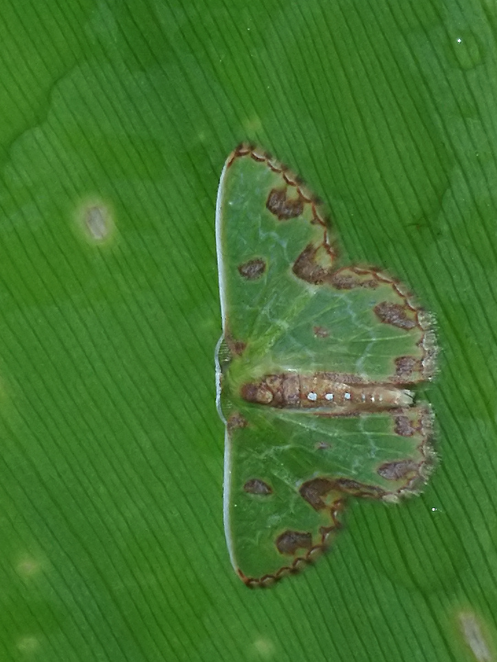 Green geometer moth near Arenal Volcano, Costa Rica.